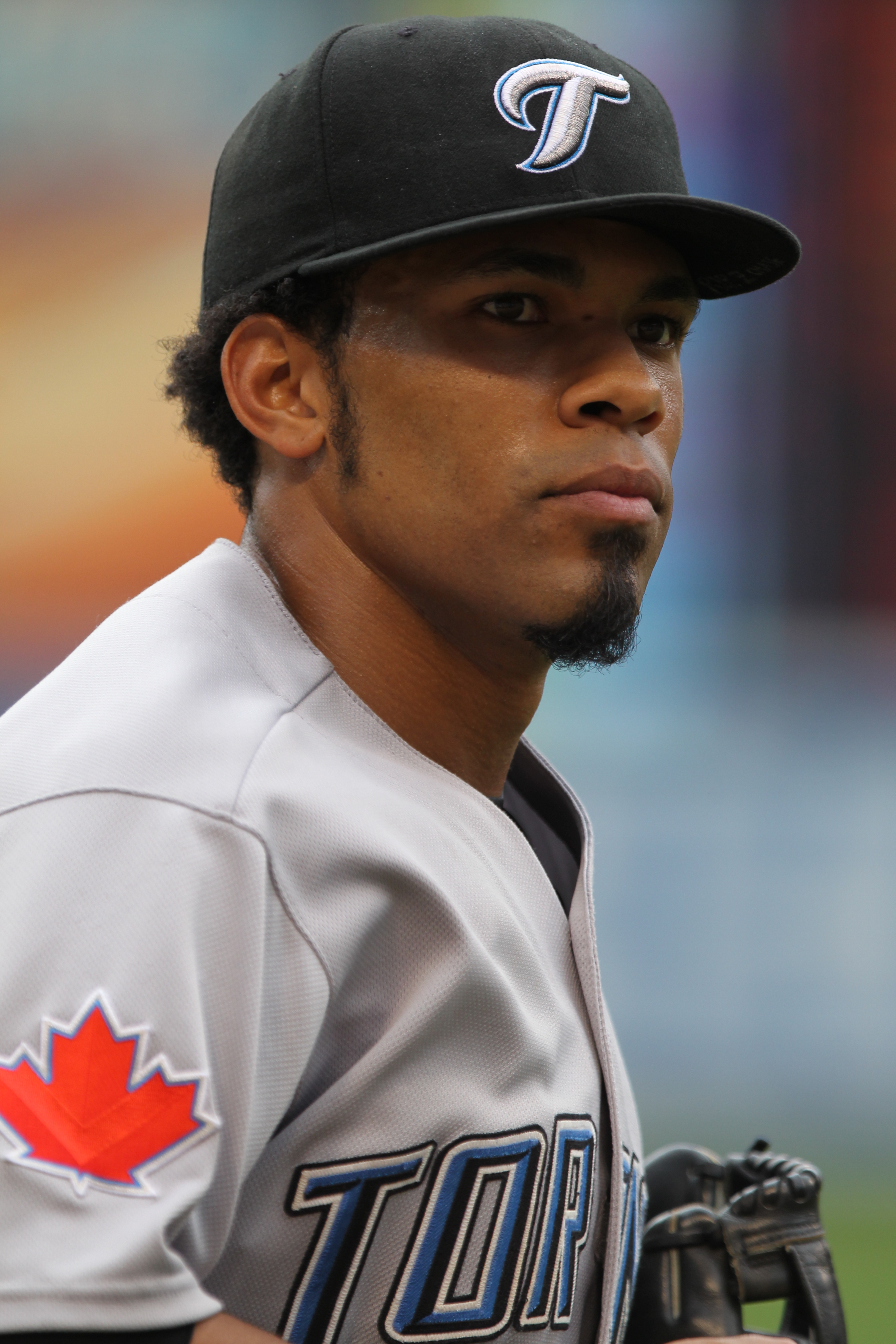 Blue Jays at Orioles September 1, 2011